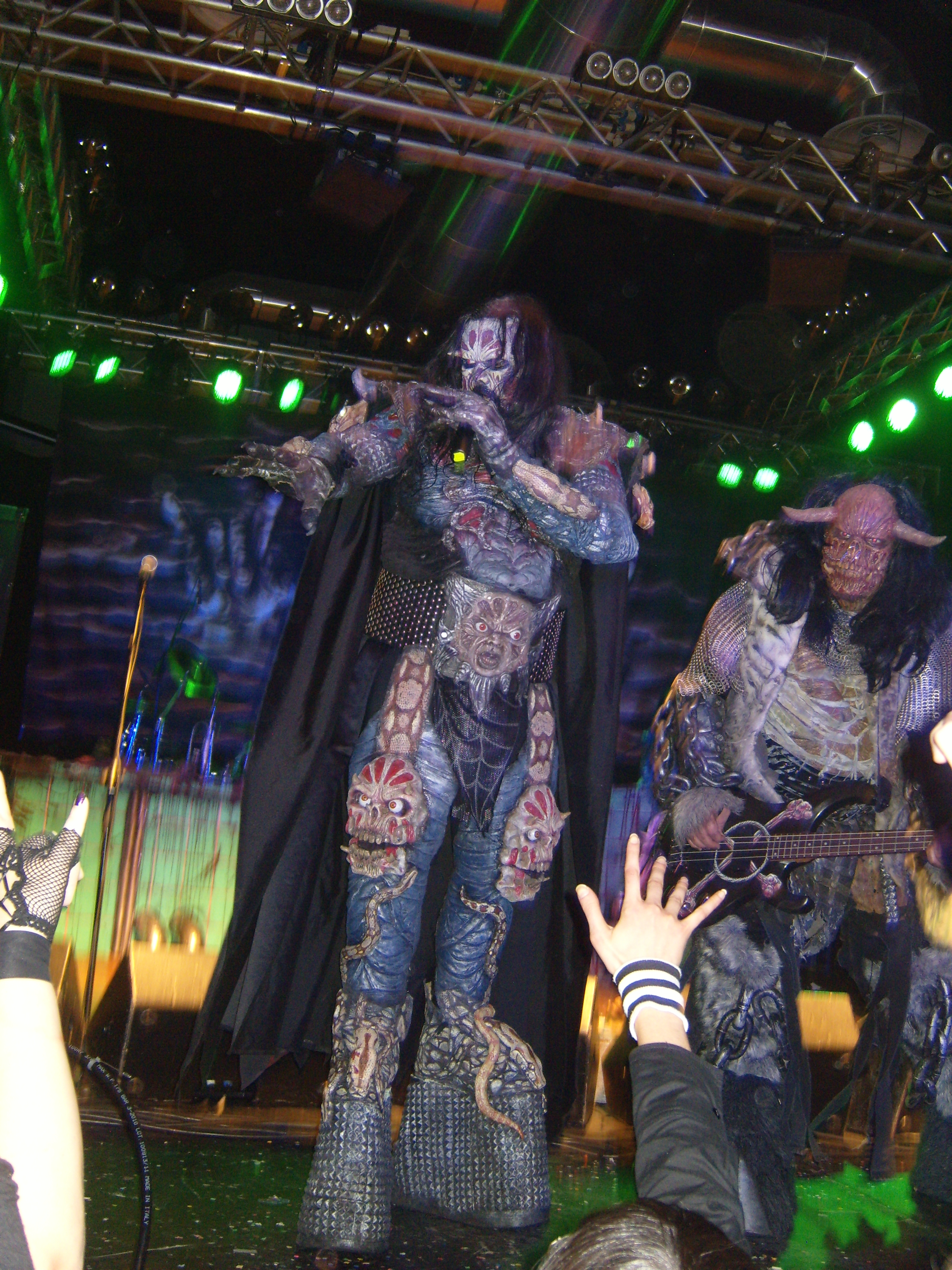 Mr Lordi and OX live in concert in Milan at Magazzini Generali.